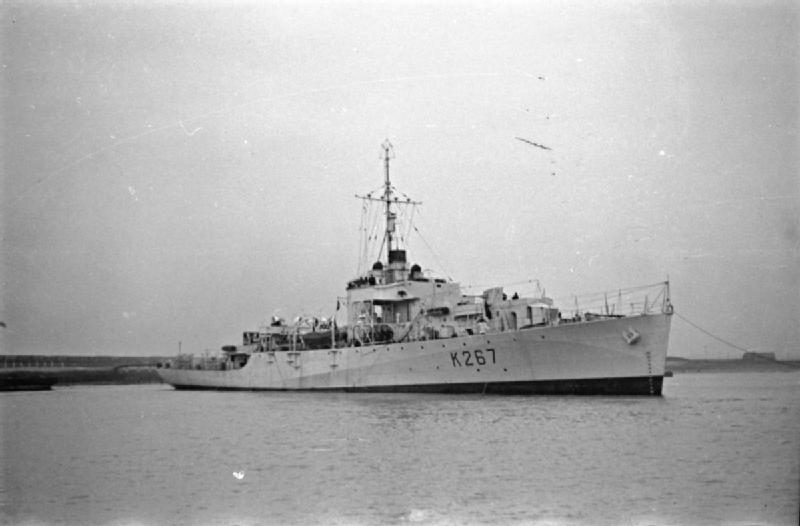 Photograph of Free French River class frigate L'Escarmouche.